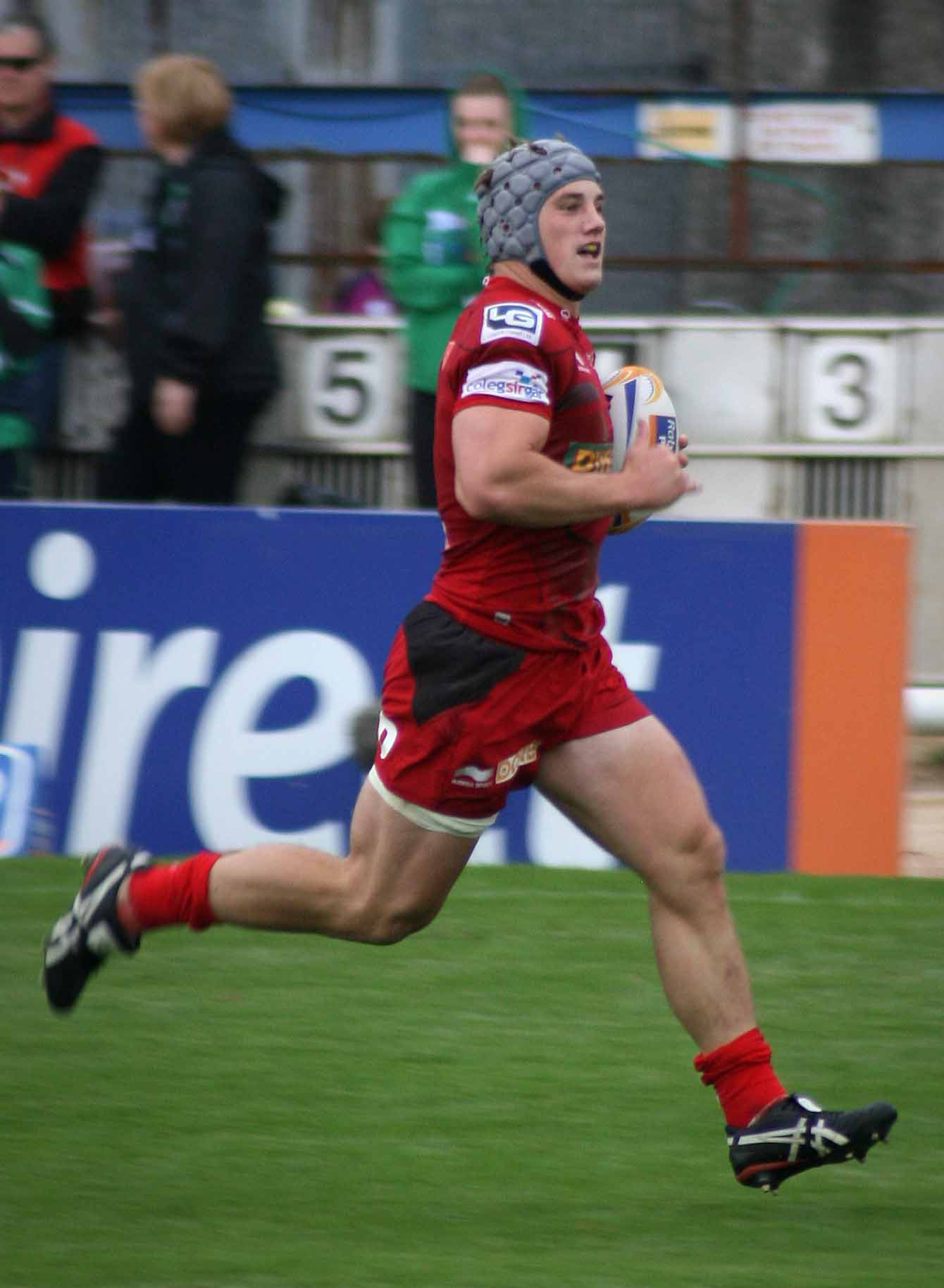 Jonathan Davies of the Llanelli Scarlets happily races almost the length of the pitch to score a try under the posts, after intercepting a Connacht pass. Connacht 11 v 24 Scarlets Sat 15th Sept, RaboDirect PRO 12